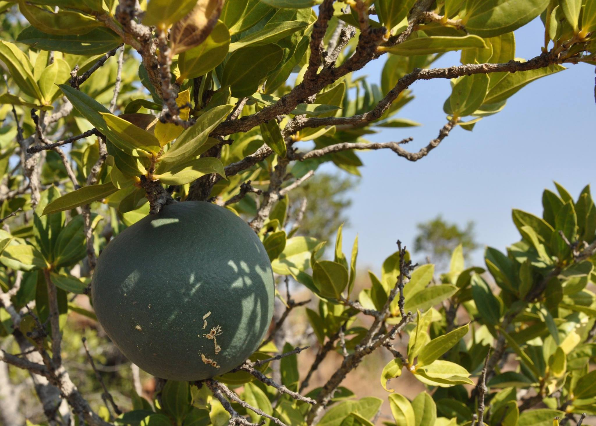 Strychnos pungens - Loskop Dam Nature Reserve near Groblersdal, South Africa